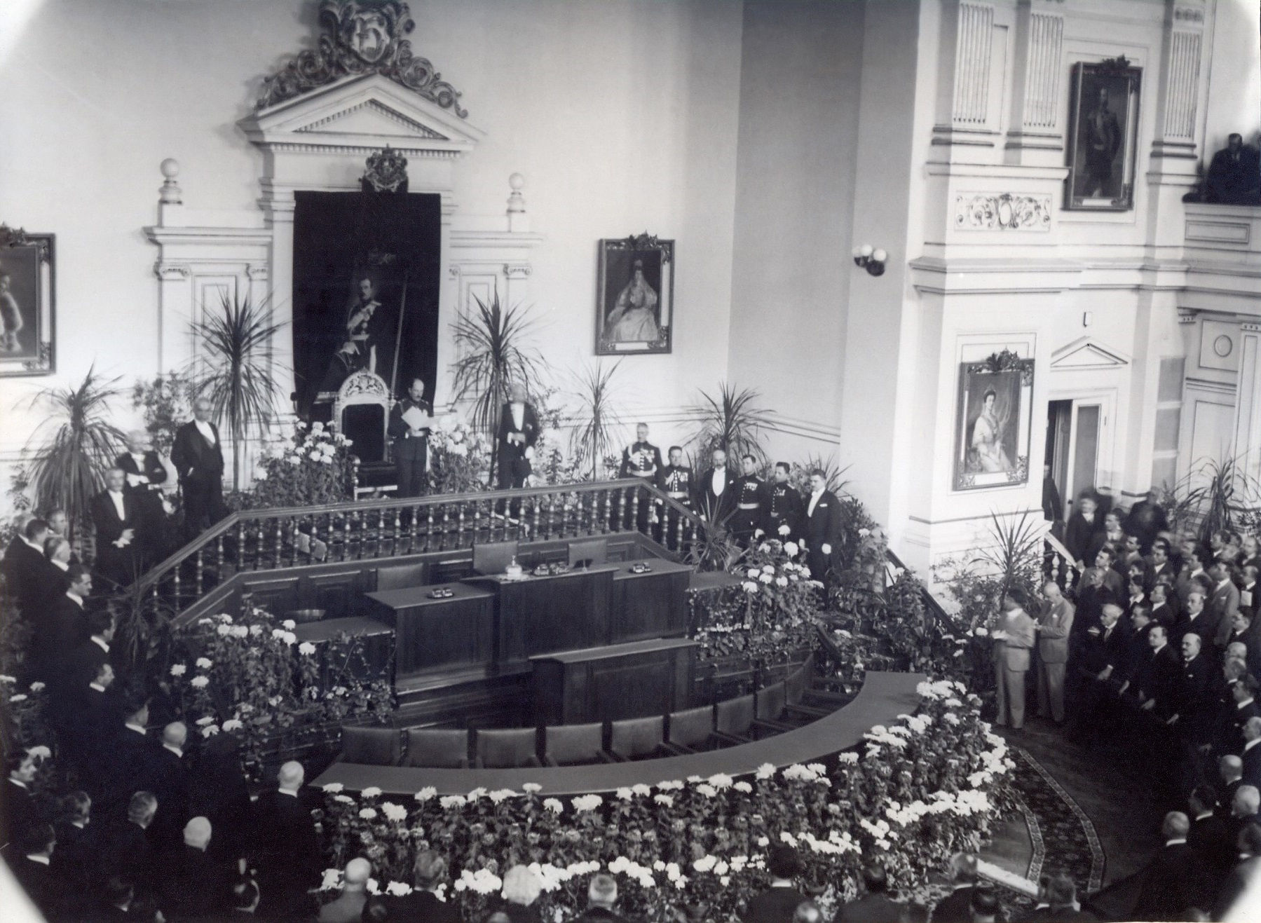 National Assembly of Bulgaria, 1932.